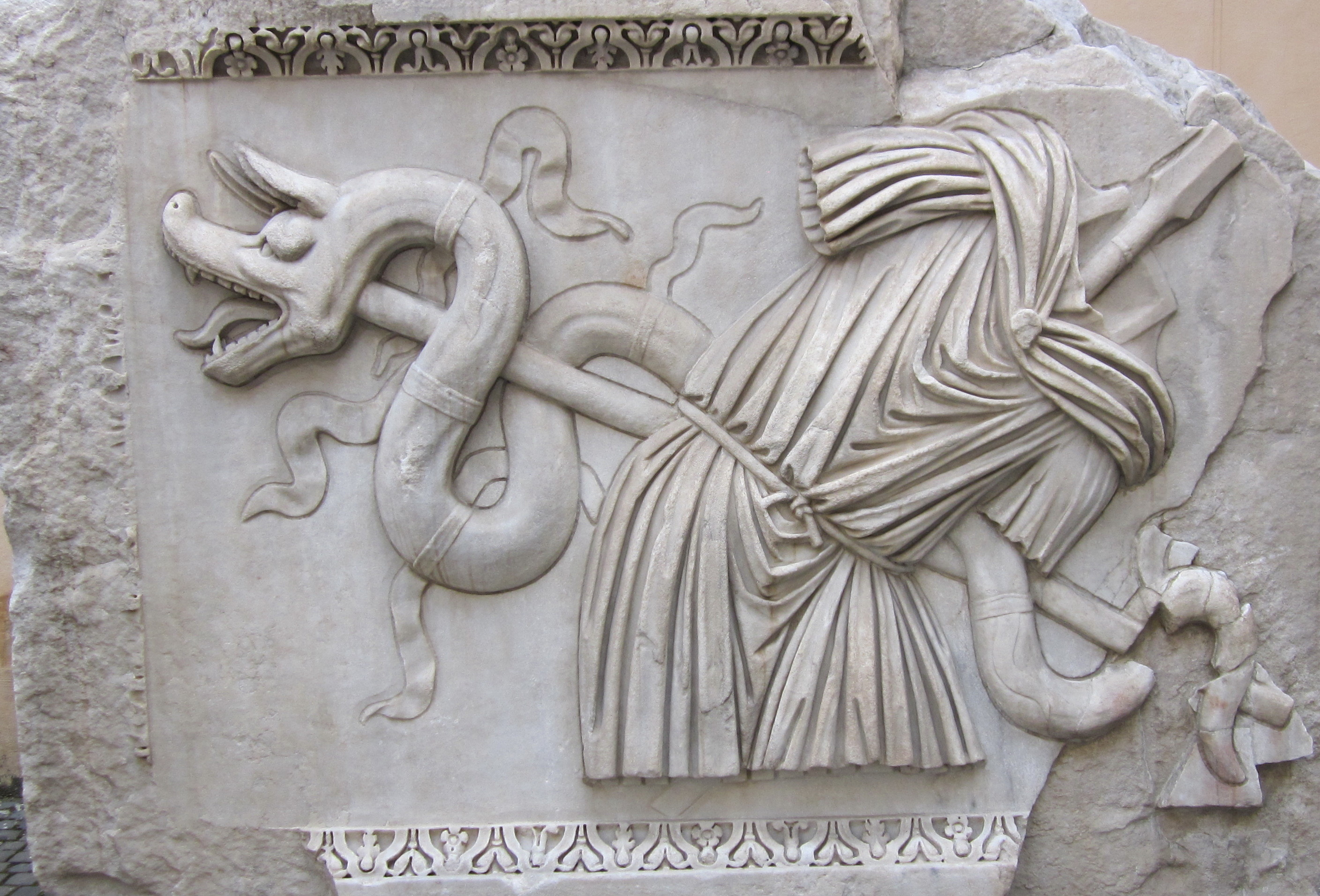 Captured Dacian Draco exposed in Rome Museums